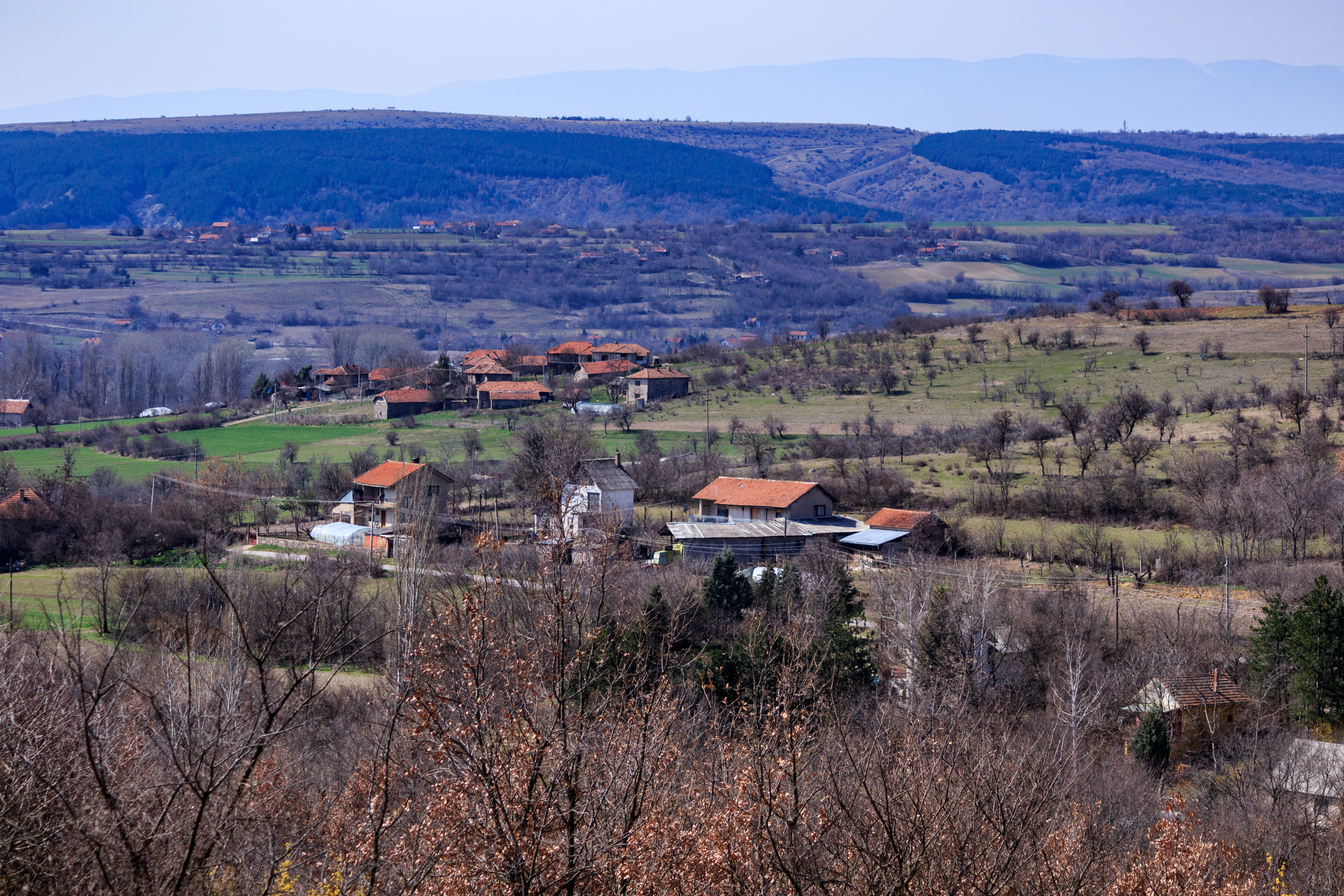 View of the village Dragomance